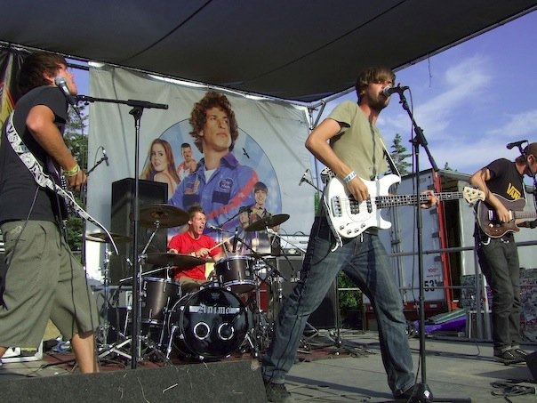 A photograph I took of the band Pendleton performing on the Vans Warped Tour 2007 at Parc Jean-Drapeau in Montreal